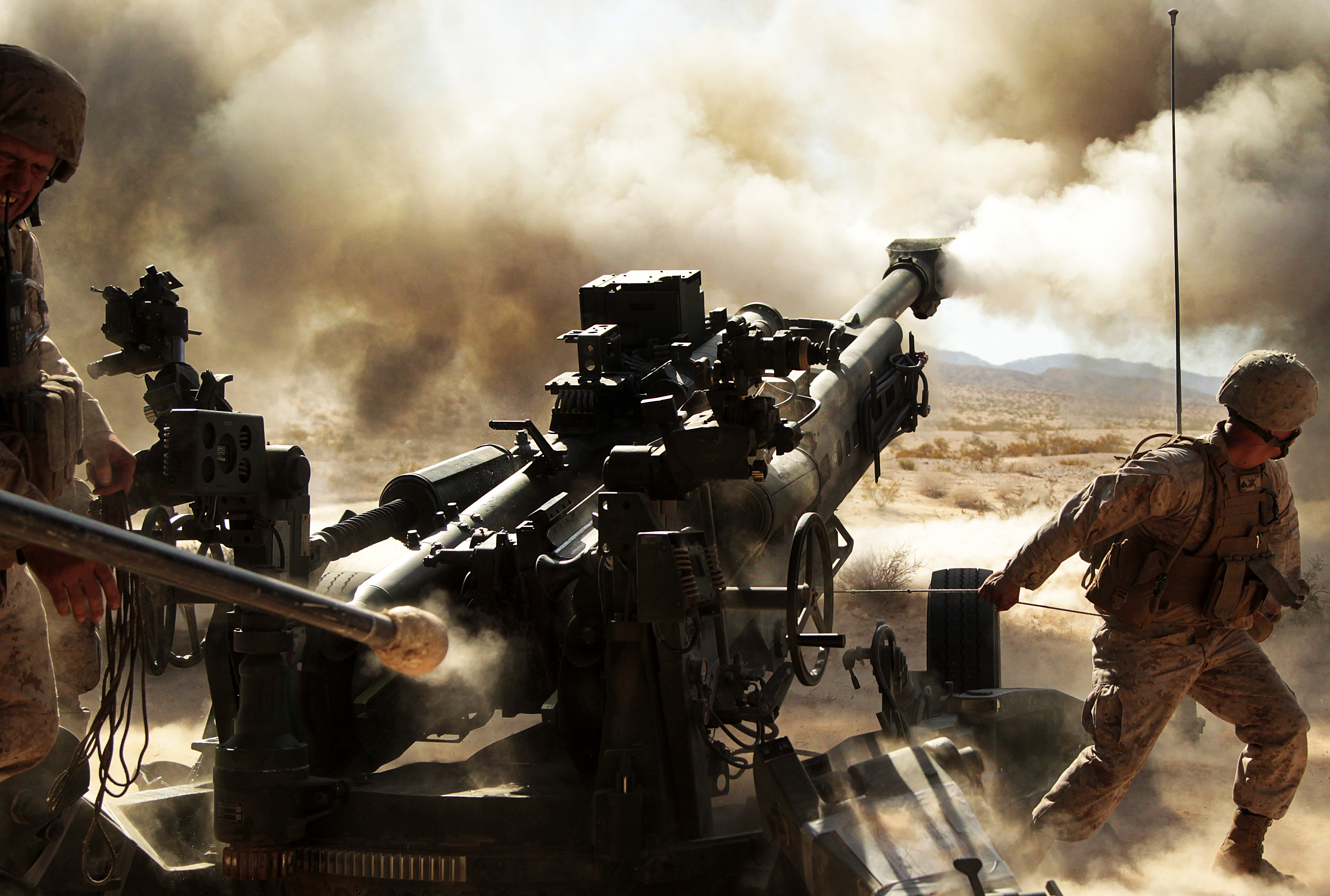 Marines with Battery N, 5th Battalion, 14th Marine Regiment, fire an M777 A2 howitzer during a series of integrated firing exercises at the Marine Corps Air Ground Combat Centter Twentynine Palms' Quakenbush Training Area April 26, 2013.